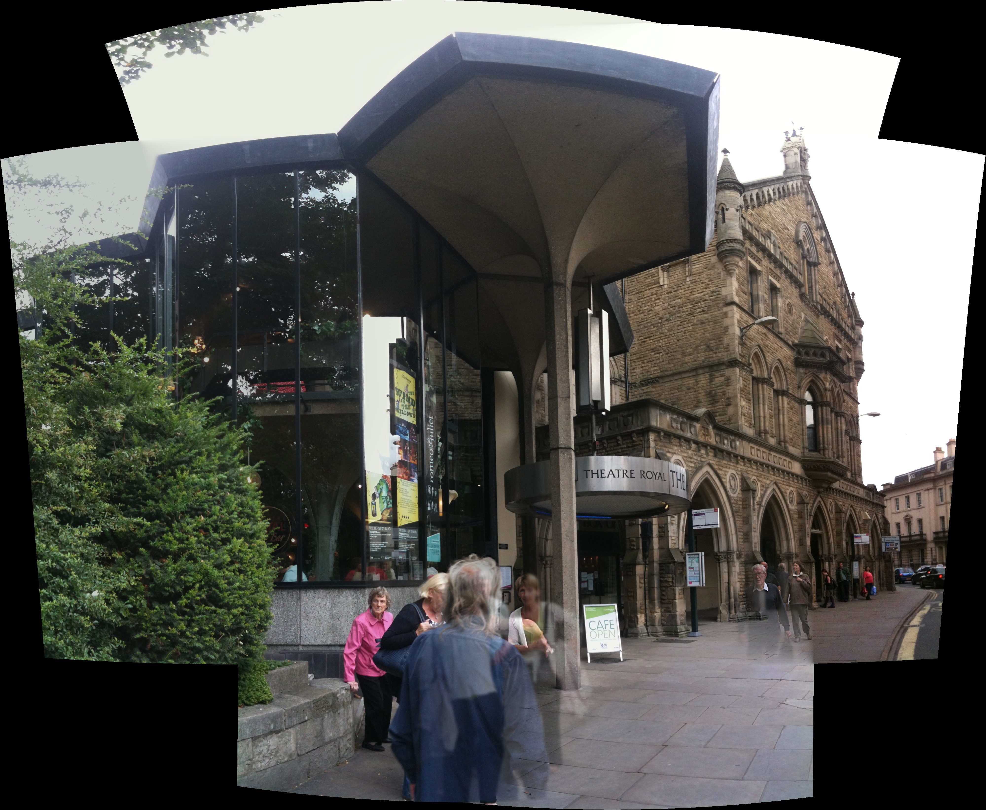 Theater Royal in York showing the 1967 modernist addition by Patrick Gwynne. Originally a restaurant, it is now used for rehearsals